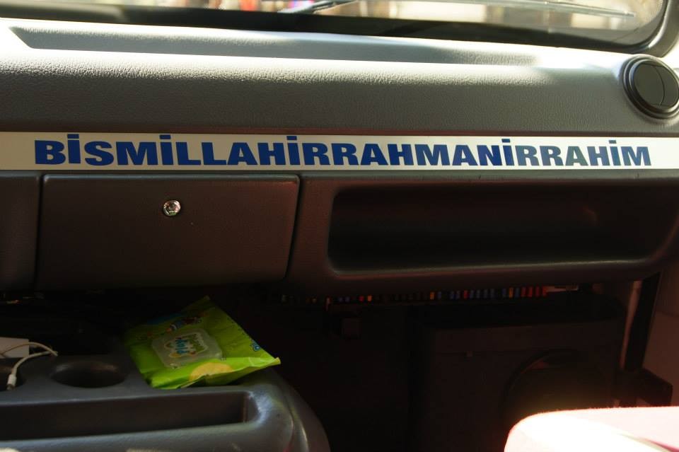 Basmala in a Turkish Dolmus. Example of Basmala used before one begins a journey.